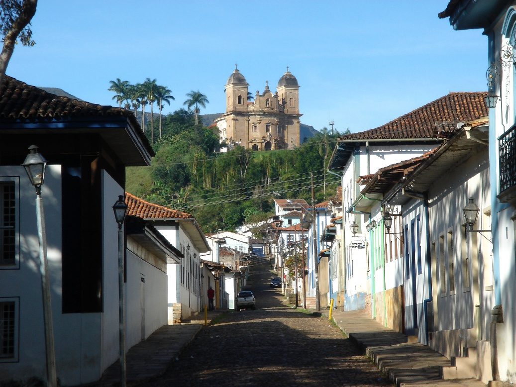 Sao Pedro dos Clerigos, Mariana